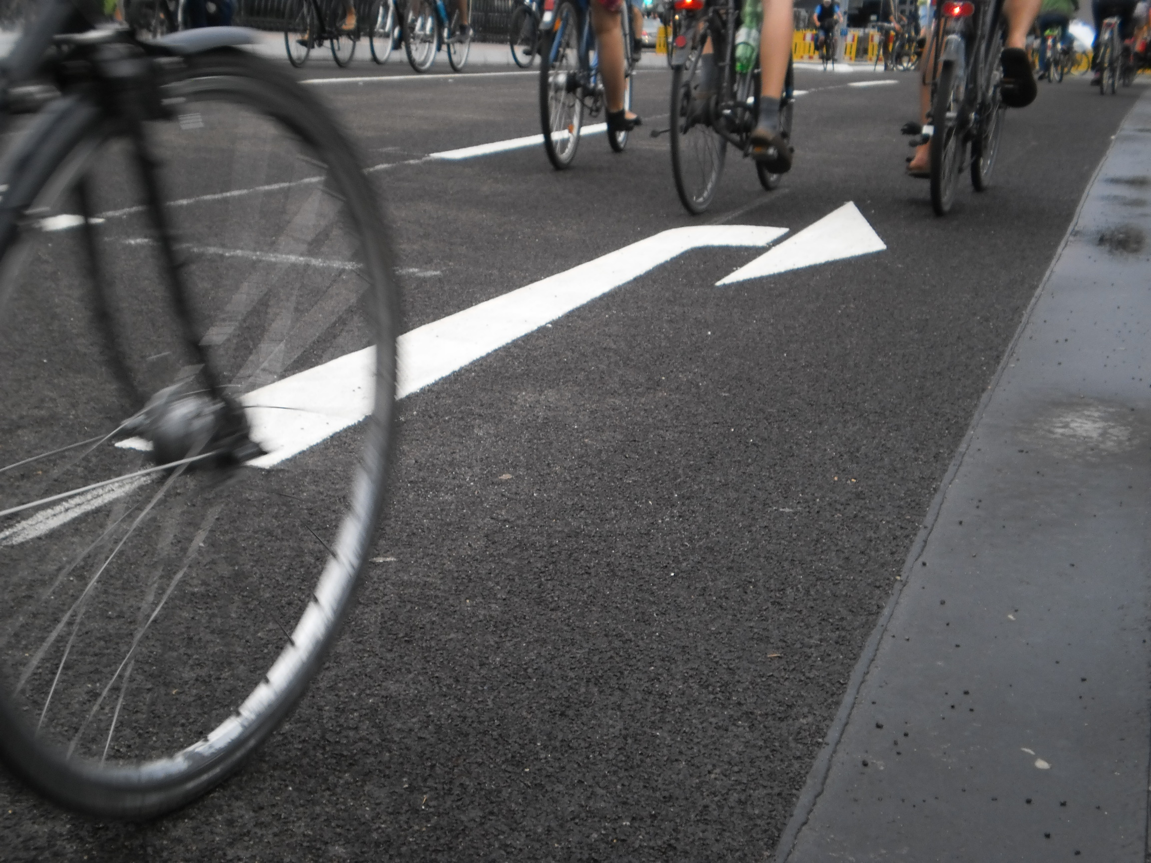 Cycling on bridge Weidenhäuser Brücke in city Marburg, demonstration with Critical Mass on street and reopening, evening of August 11, 2019.